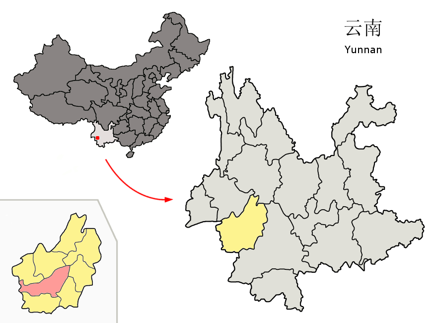 Location of Gengma County (pink) and Lincang Prefecture (yellow) within Yunnan province of China Map drawn in september 2007 using various sources, mainly : Yunnan province administrative regions GIS data: 1:1M, County level, 1990 Yunnan Counties map from